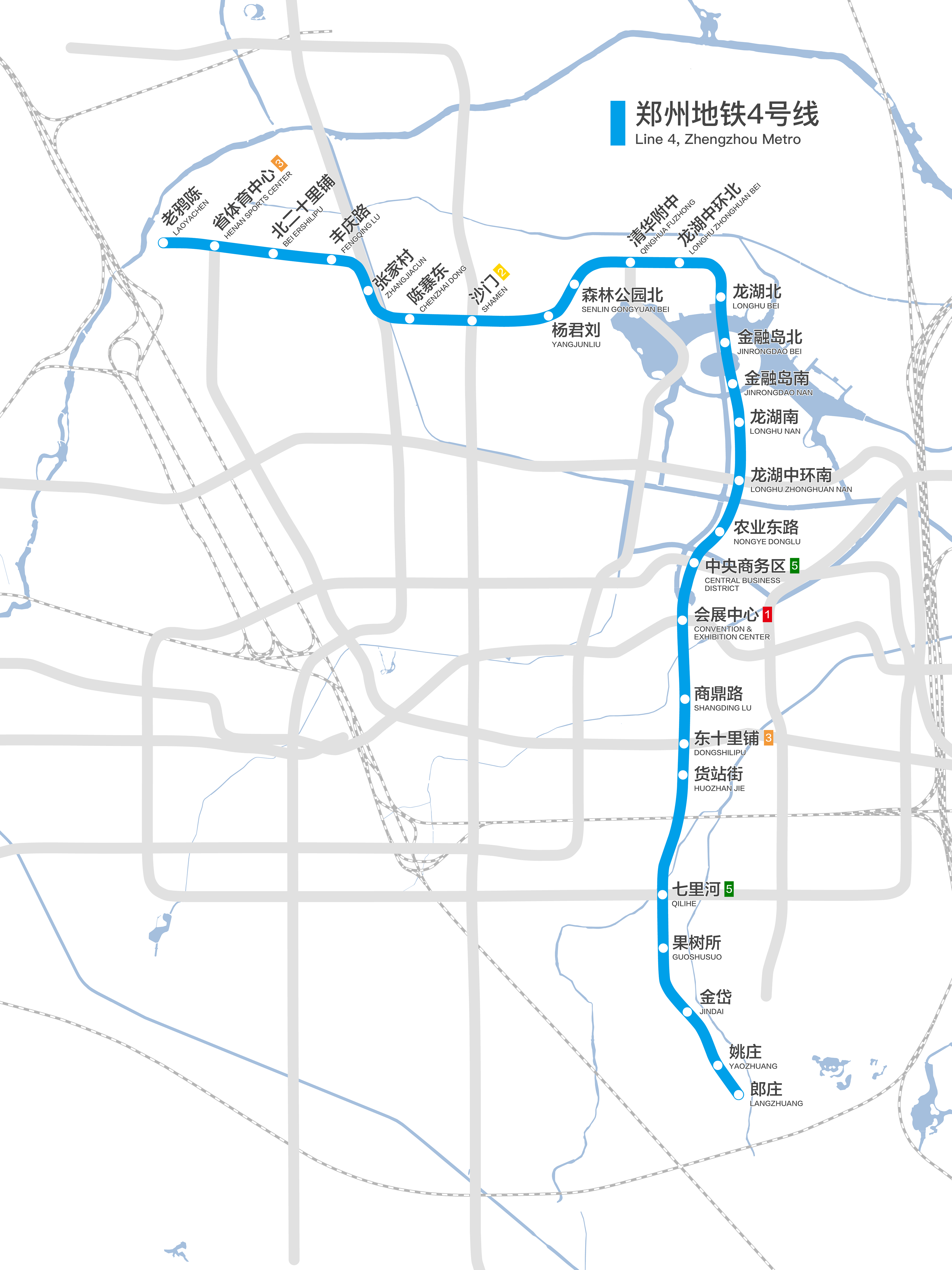 Route Map of Zhengzhou Metro Line 4